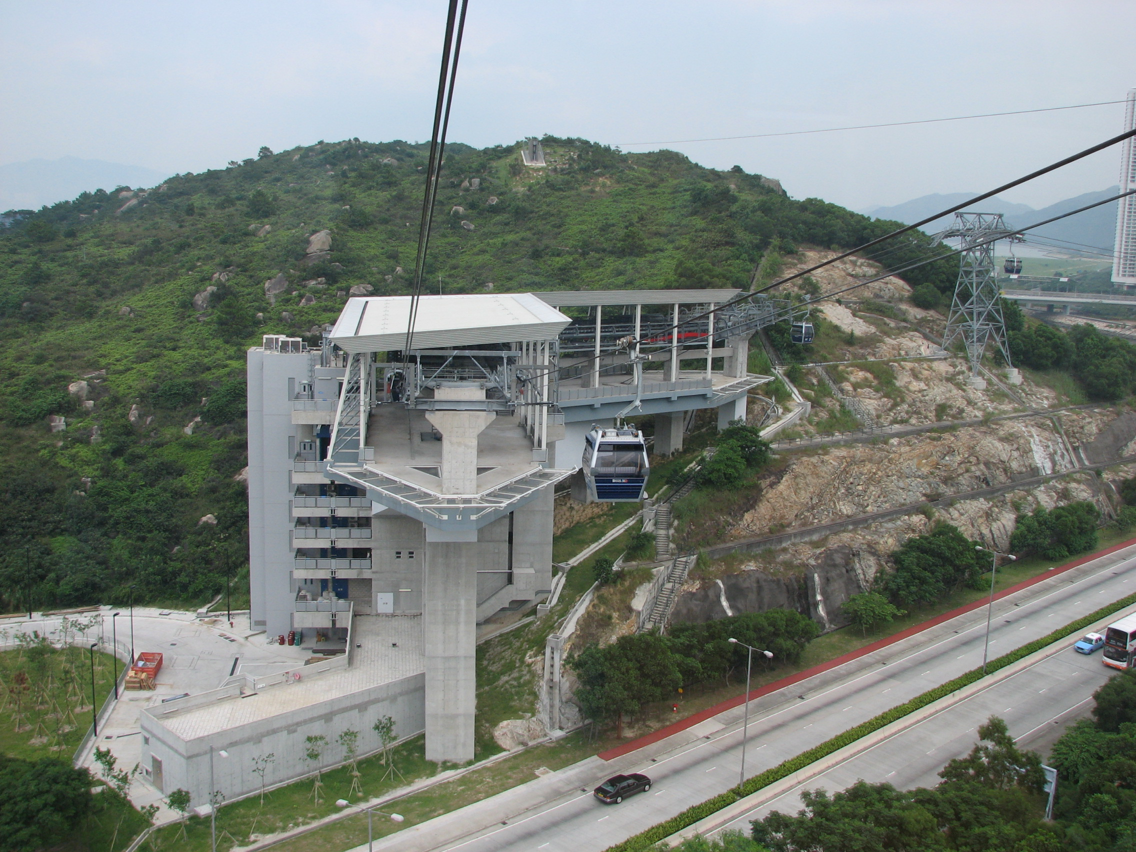 The Airport Island angle station of Ngong Ping Skyrail